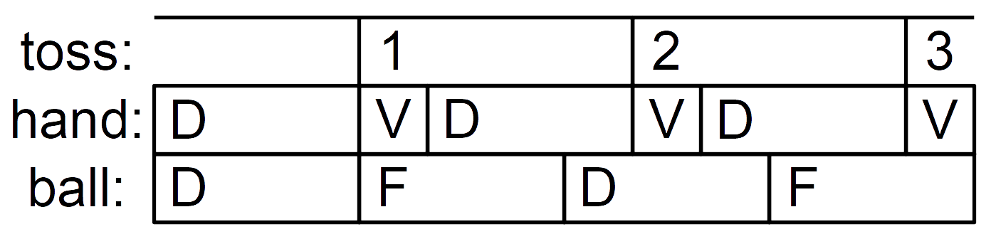 Map created from Claude Shannon's juggling theorem for the juggling pattern known as the Cascade. (F+D)H = (V+D)N. F = time in air D = time in hand H = number of hands V = time hand is vacant N = number of balls Thus for the three ball Cascade: (3+3)2 = (1+3)3 = 12. A three ball pattern for one person, we know that, H = 2 and N = 3, thus: (F+D)2 = (V+D)3. The LCD of 2 and 3 is 6, and 6*2 = 12. The only option for x*2 = y*3 = 12 is that x = 6 and y = 4. This means that the sum of F and D must be 6 and the sum of V and D must 4: (6)2 = (4)3. The only options for D in (V+D)3 = 12 3, 2, and 1. If D = 2 then F must equal 4 and V must equal 2. (4+2)2 = (2+2)3 = 12 If D = 1 then F must equal 5 and V must equal 3. (5+1)2 = (3+1)3 = 12 Presumably neither of the above are possible since there are only 3 balls, there can't be values above three. If D = 3 then F must equal 3 and V must equal 1. (3+3)2 = (1+3)3 = 12 1st 2nd 3rd hand: D--VD--VD--V ball: D--F--D--F-- R L (F+D)H=(V+D)N (3+3)2=(1+3)3 6×2=4×3 12=12